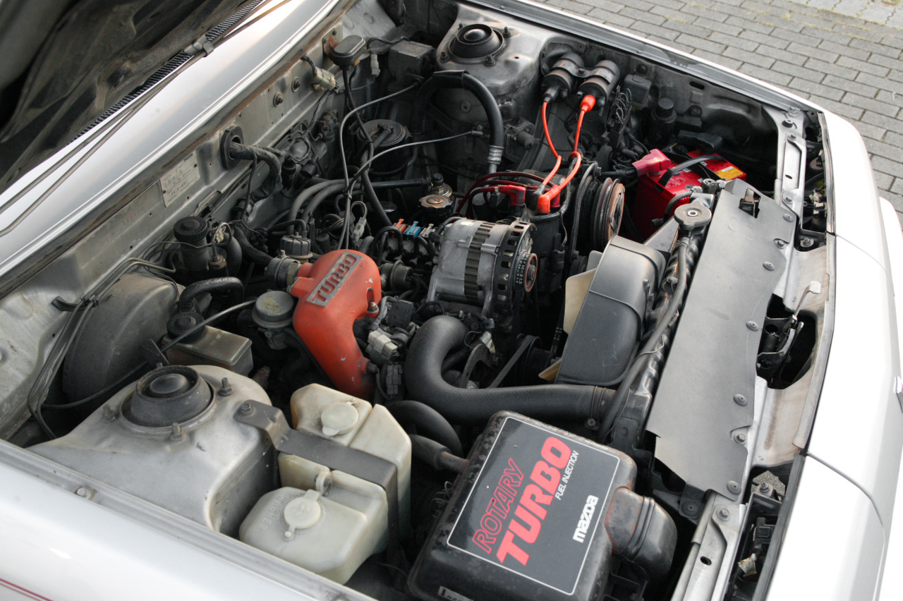 Mazda Cosmo, third generation ( HB ).